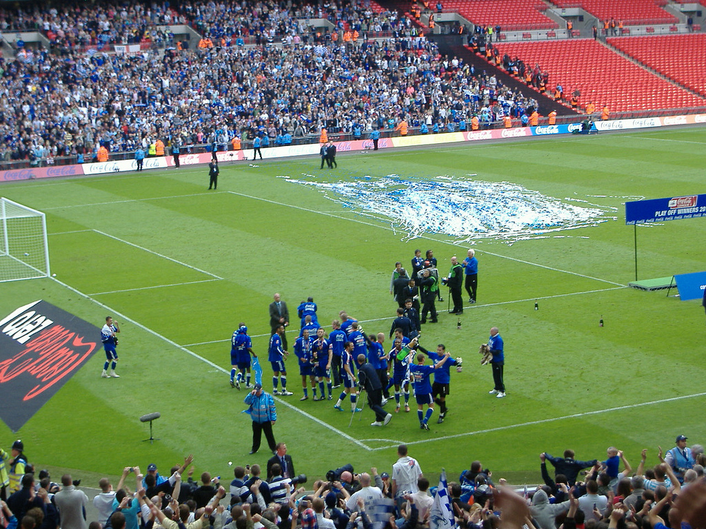 Millwall players on the Wembley pitch celebrate promotion to The Championship, after beating Swindon Town 1-0.